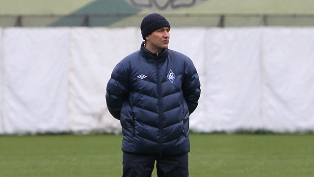 sadasd Aleksandr Valeryevich Tsygankov